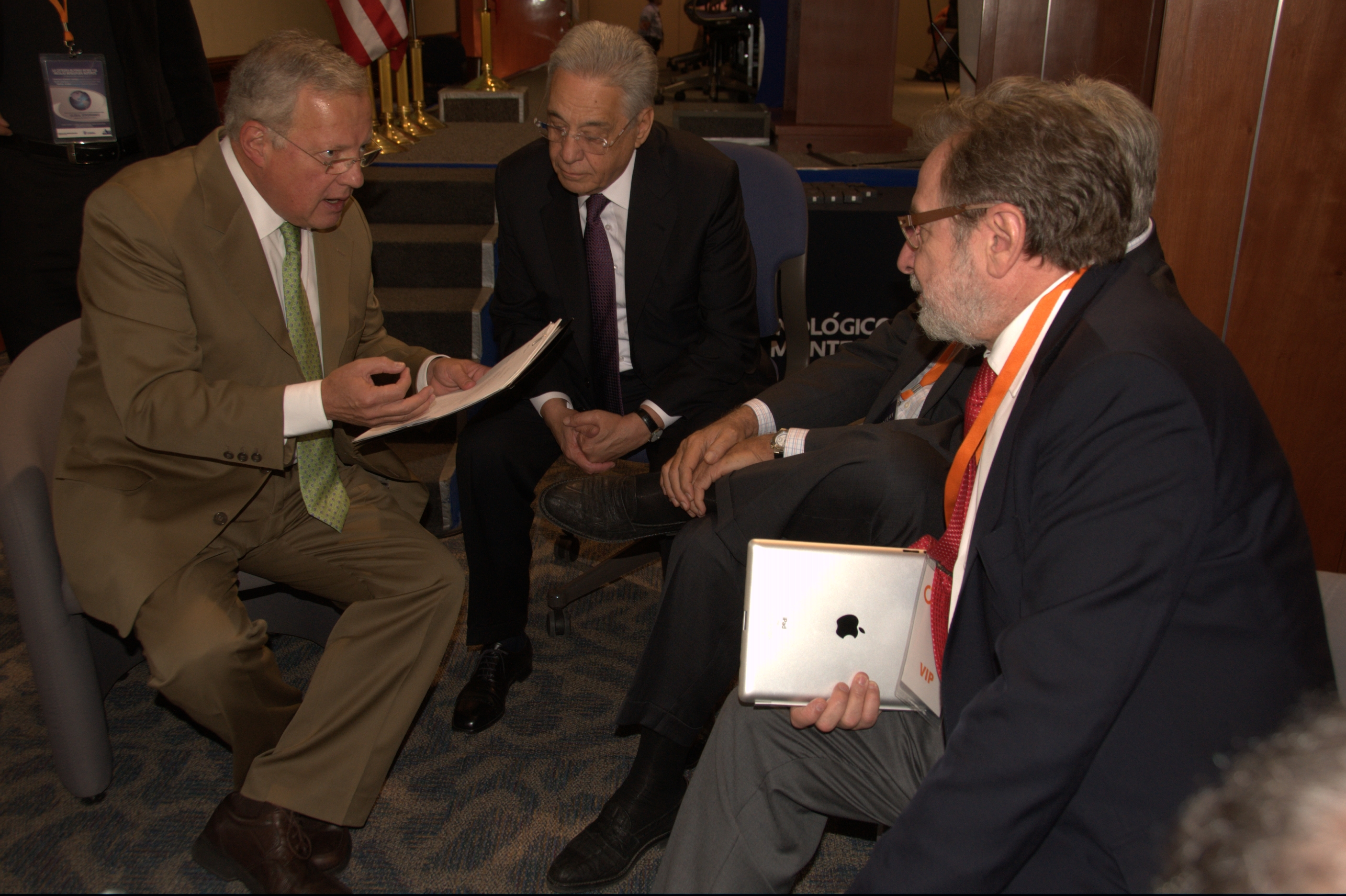 Fernando Henrique Cardoso, Felipe Gonzalez and Juan Luis Cebrián Echarri at the Global Governance event at ITESM- Campus Ciudad de México